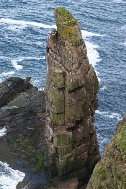 Small Stack, Handa Island. The first view of the cliffs, at the end of the path leading across the island, is of this stack, in Puffin Bay.